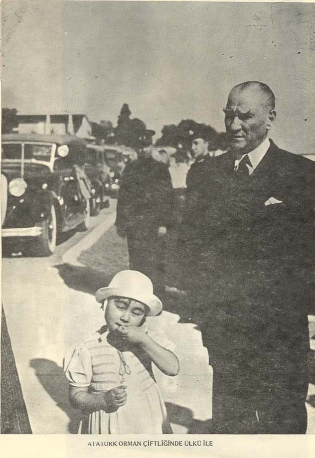 Mustafa Kemal Atatürk, the first president of the Republic of Turkey during one of his national tours.